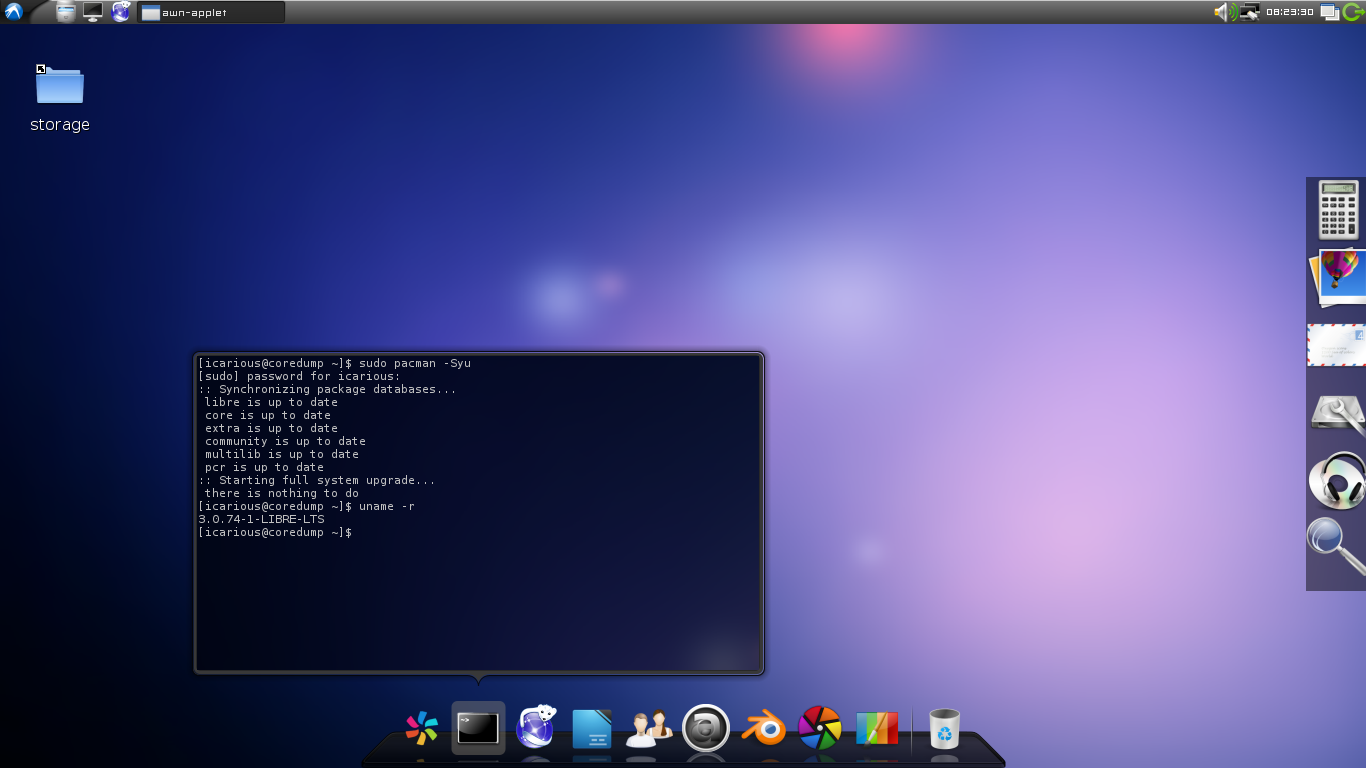 Parabola GNU/Linux-libre with LXDE